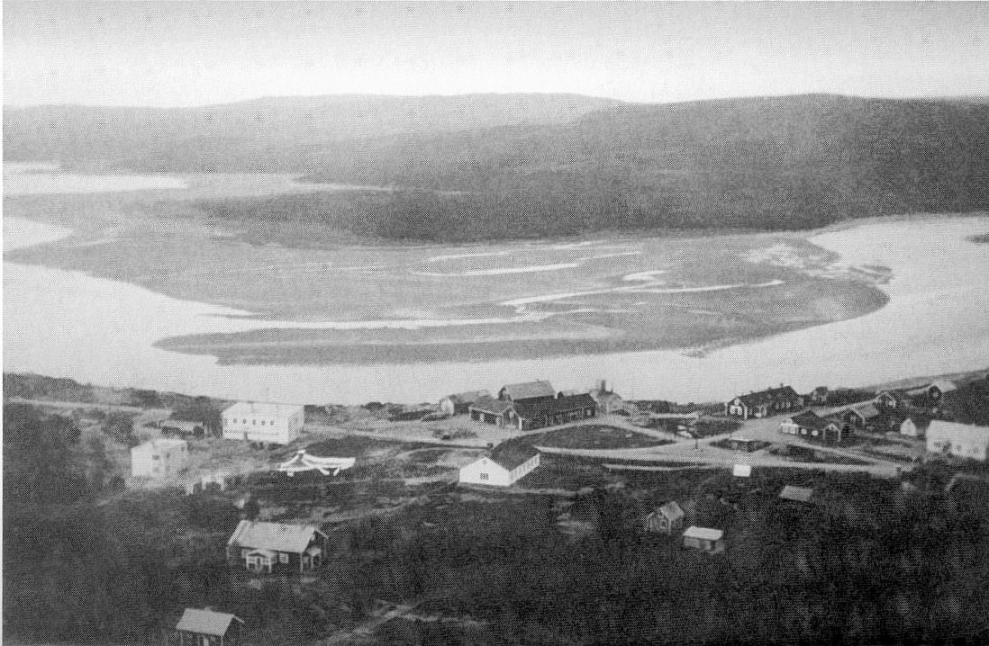 Parkkina village in Petsamo, Finland during the 1930's.